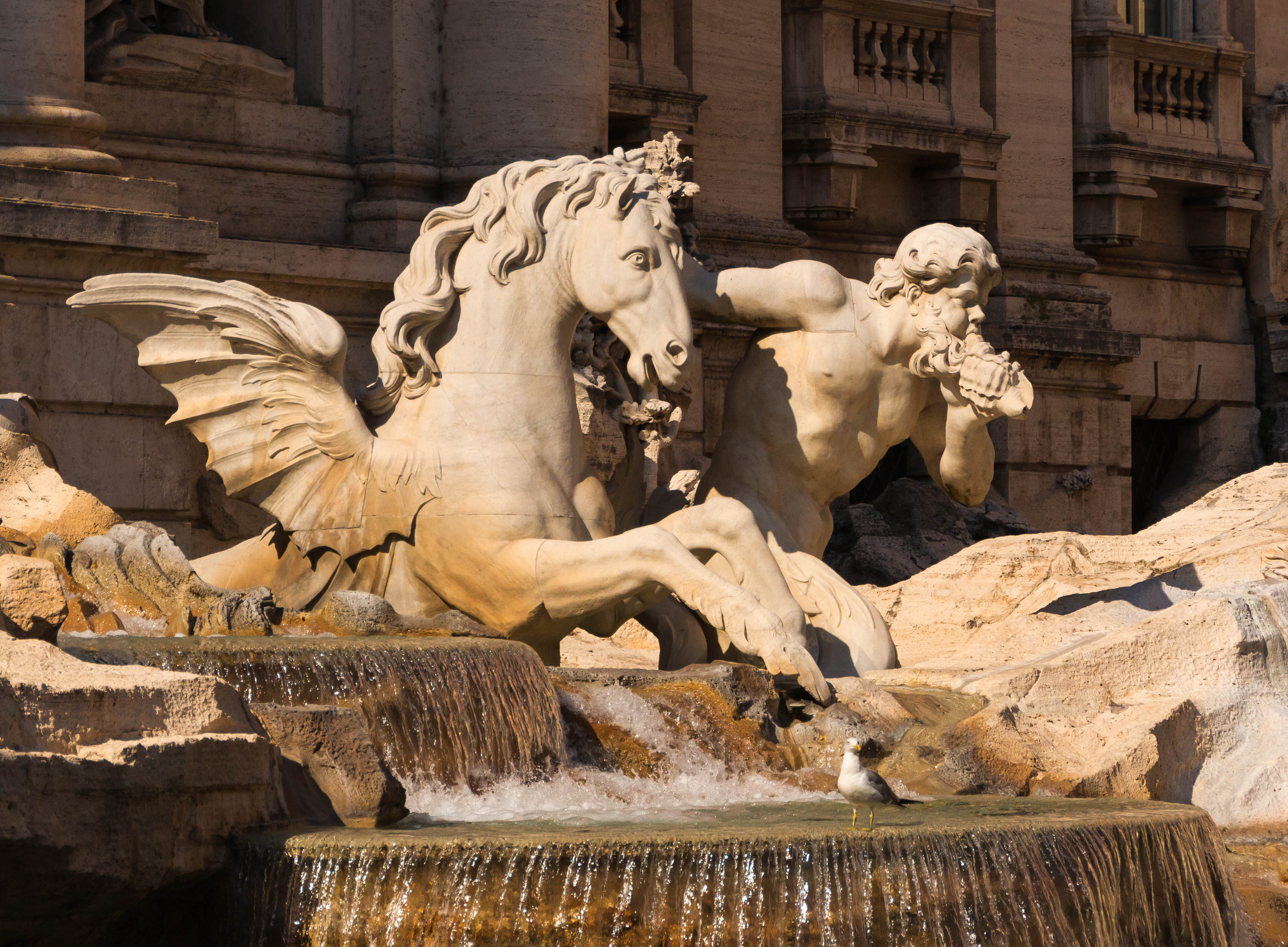 Detail of the Trevi fountain, Rome, Italy.